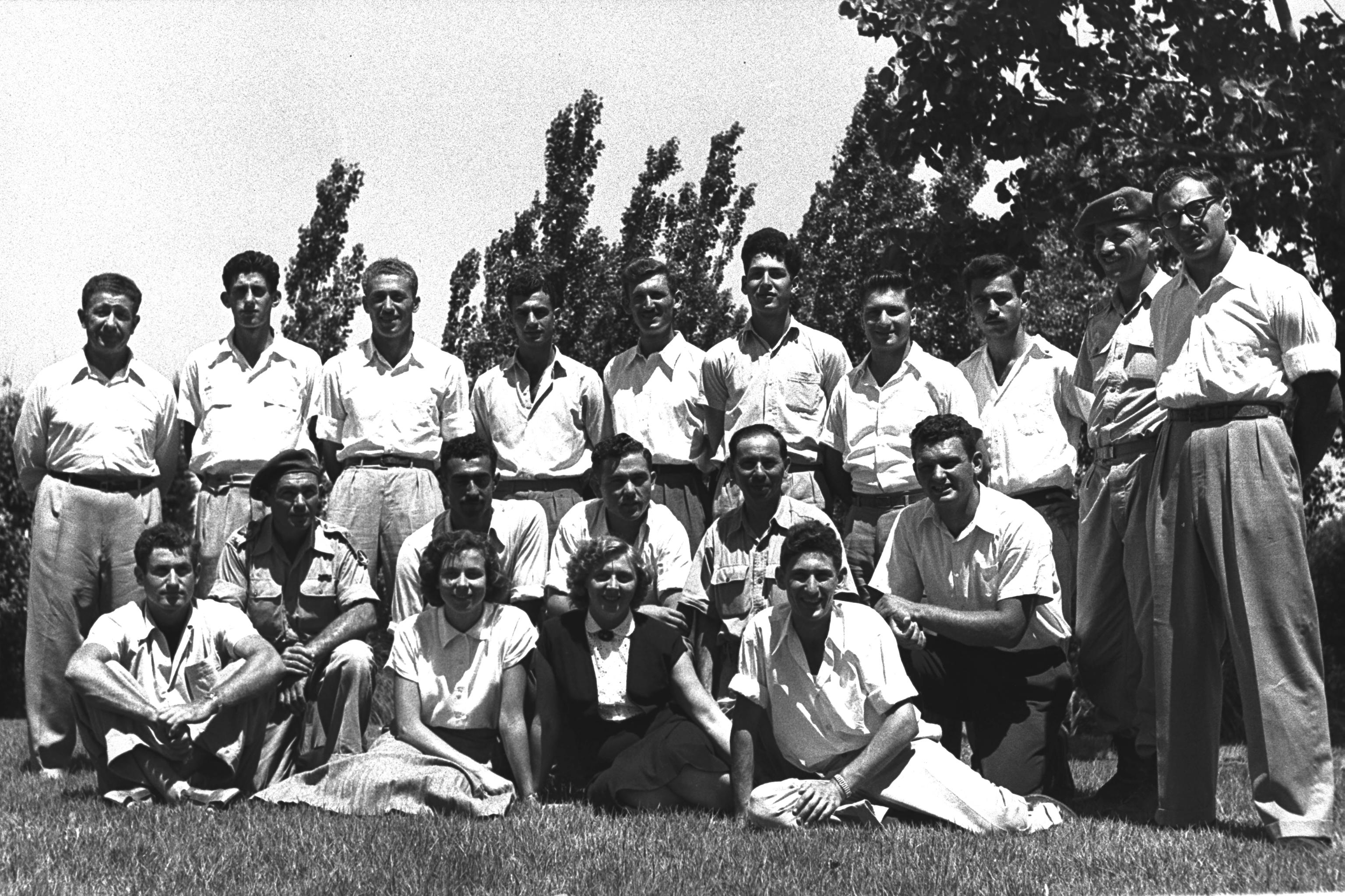 The first ever Israeli Olympic team prepares to depart for Helsinki.